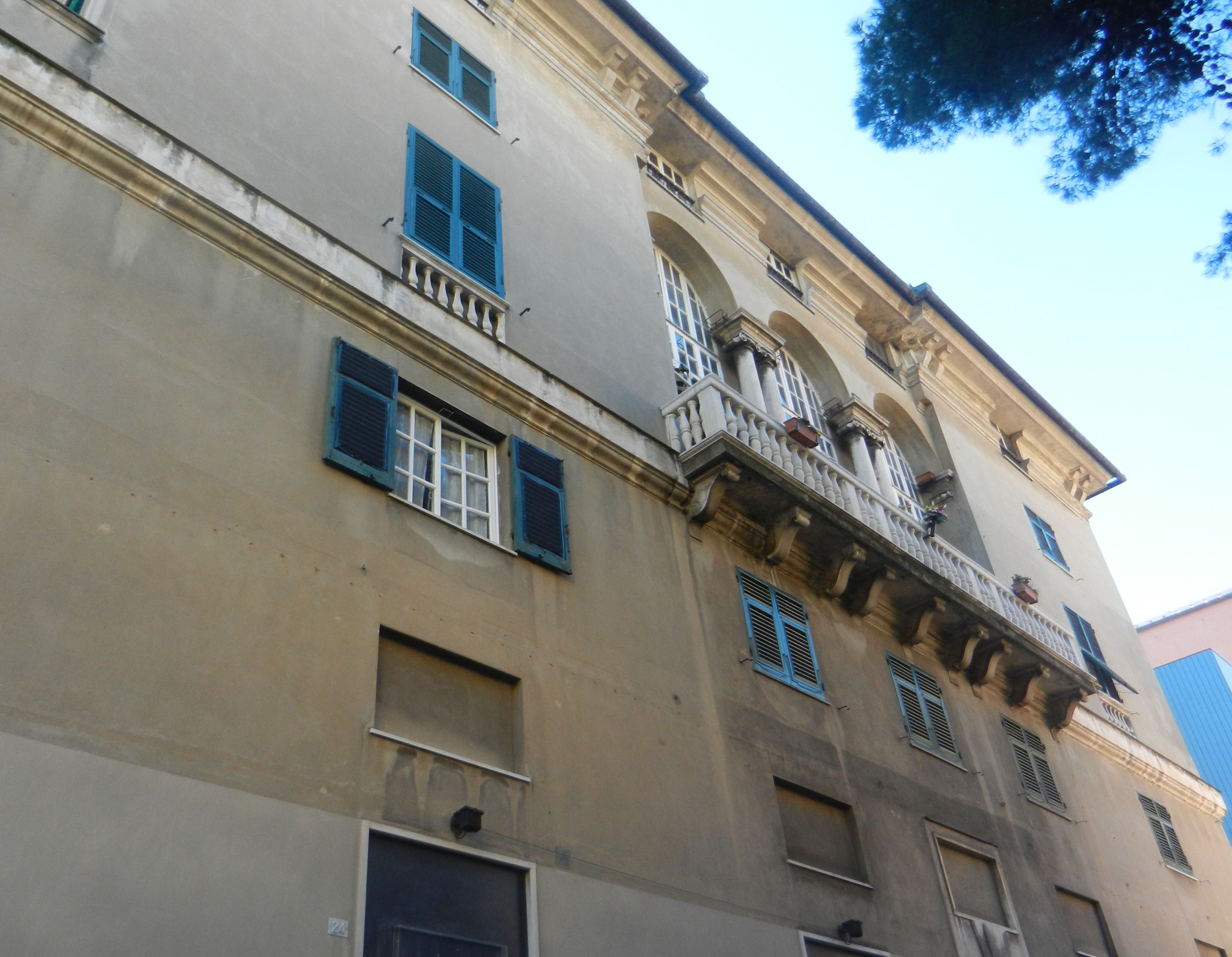 Genoa, Italy, quarter of Sampierdarena, villa Lercari Sauli, said "la Semplicità" ("the simplicity"), facade detail